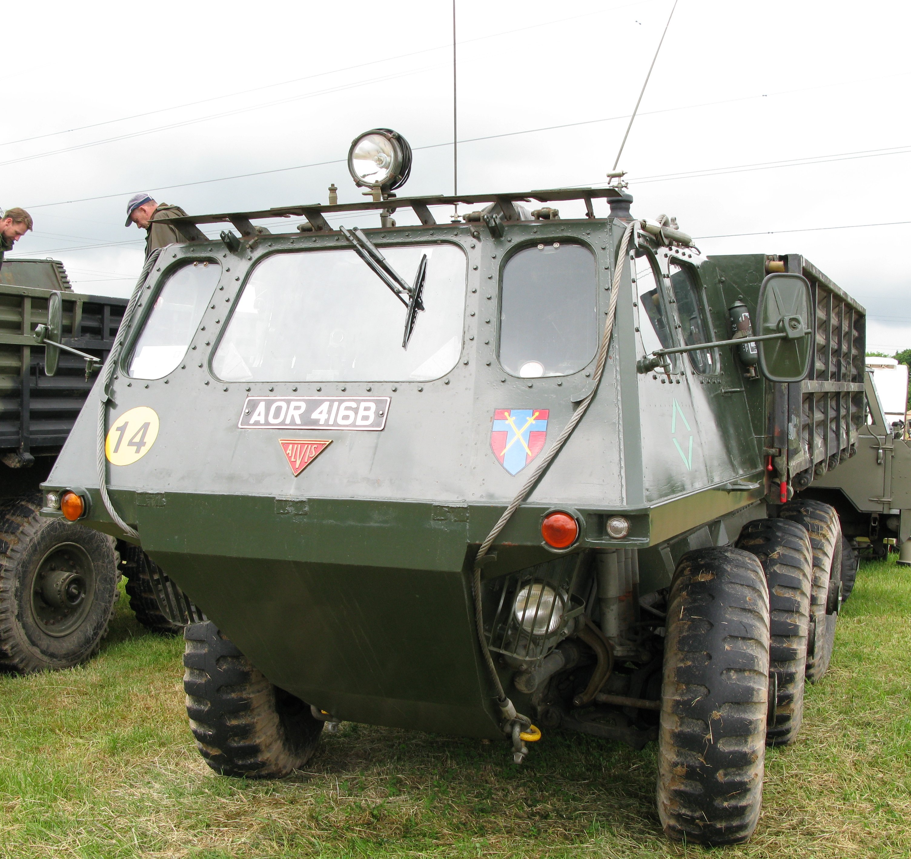 Modern photo of an Alvis Stalwart (FV620)